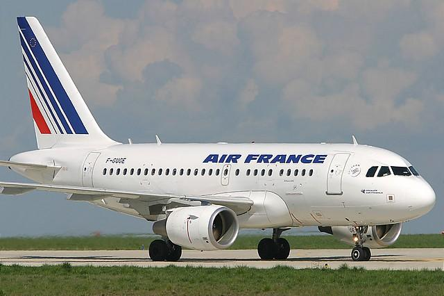 Air France Airbus A318 F-GUGE